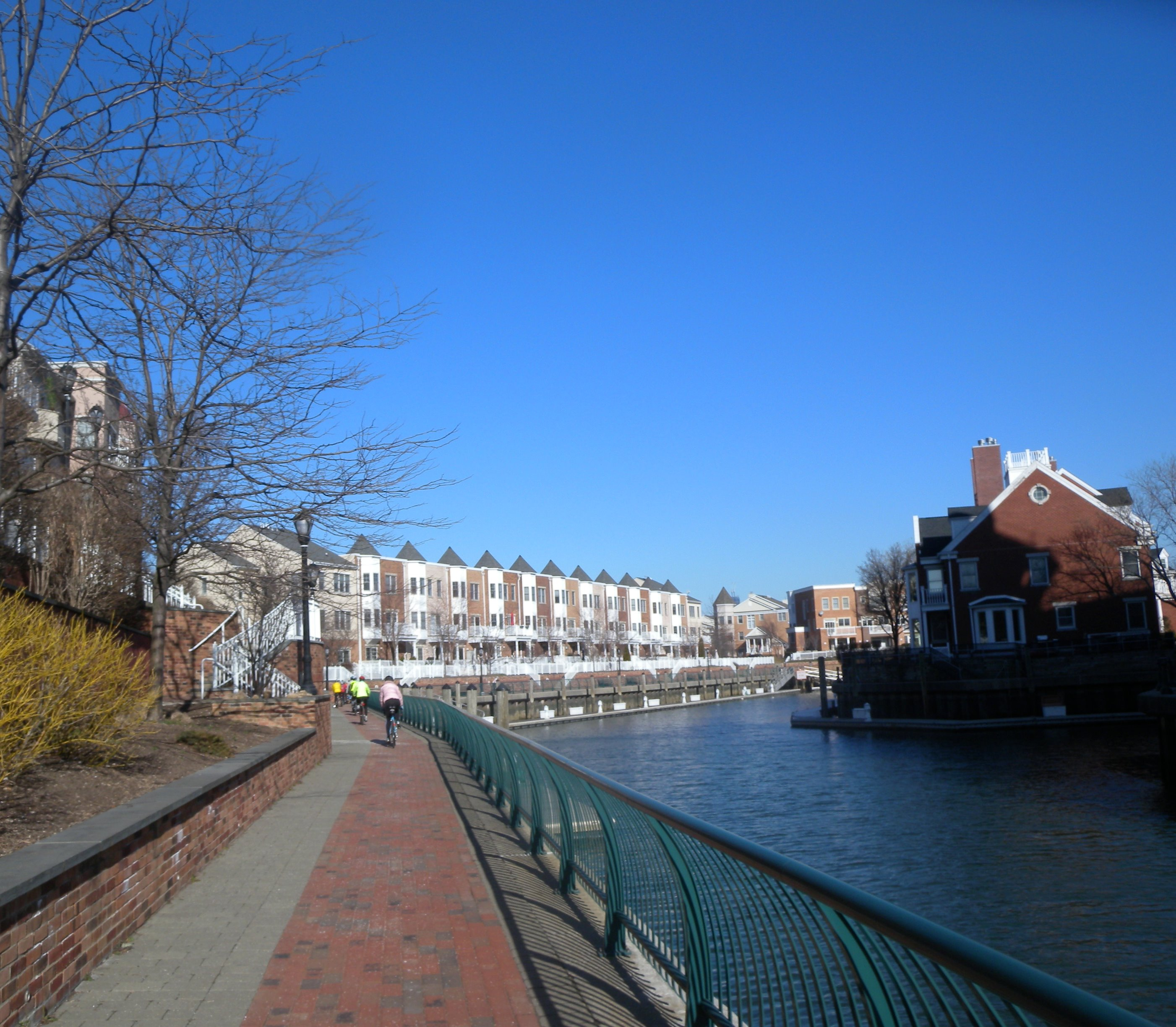 Looking northeast from near Chapel Avenue at Port Liberte townhouses with Waterfront Walkway along canal on a sunny early afternoon.